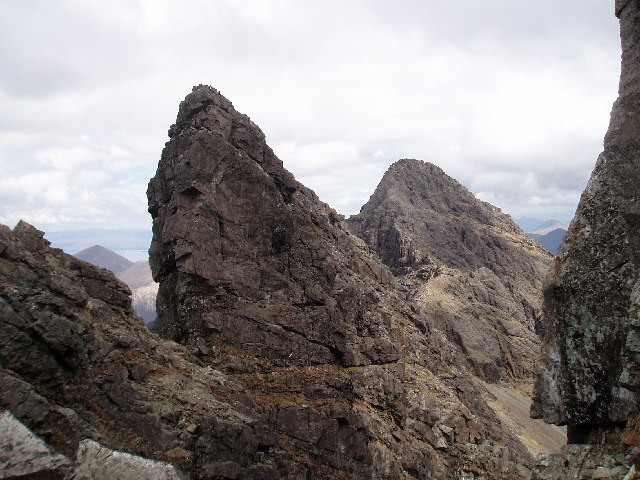 Am Basteir, a mountain in the northern Cuillin on the Isle of Skye.